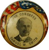 Campaign button for Samuel W. Smith, member of the US House of Representatives.